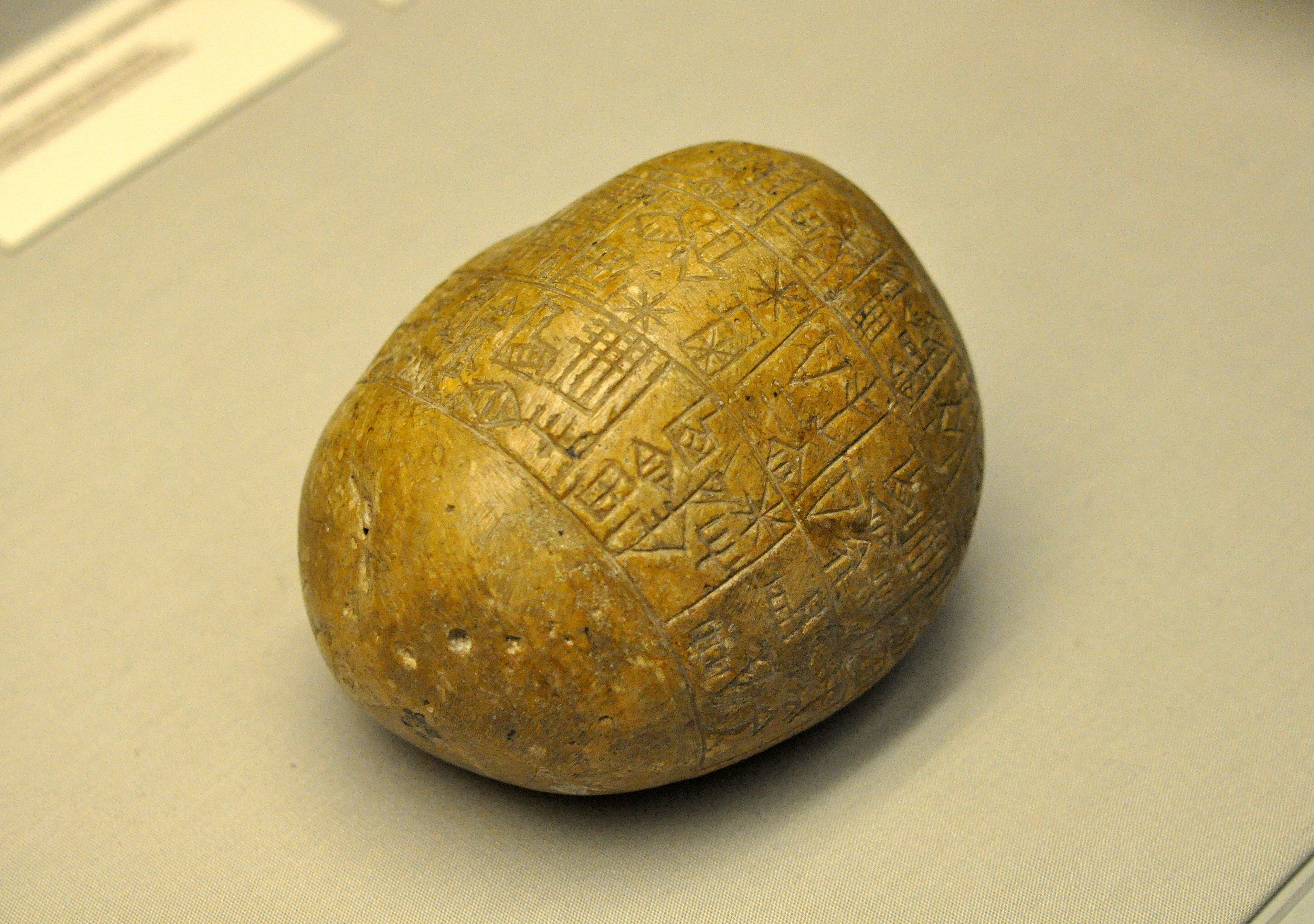 This large river-worn pebble was inscribed with cuneiform inscription. The cuneiform text states that king Enannatum I reminds the gods of his prolific temple achievements in the Sumerian city of Lagash. Early Dynastic Period, circa 2400 BCE. From Girsu, Southern Mesopotamia, modern-day Iraq. The British Museum, London.